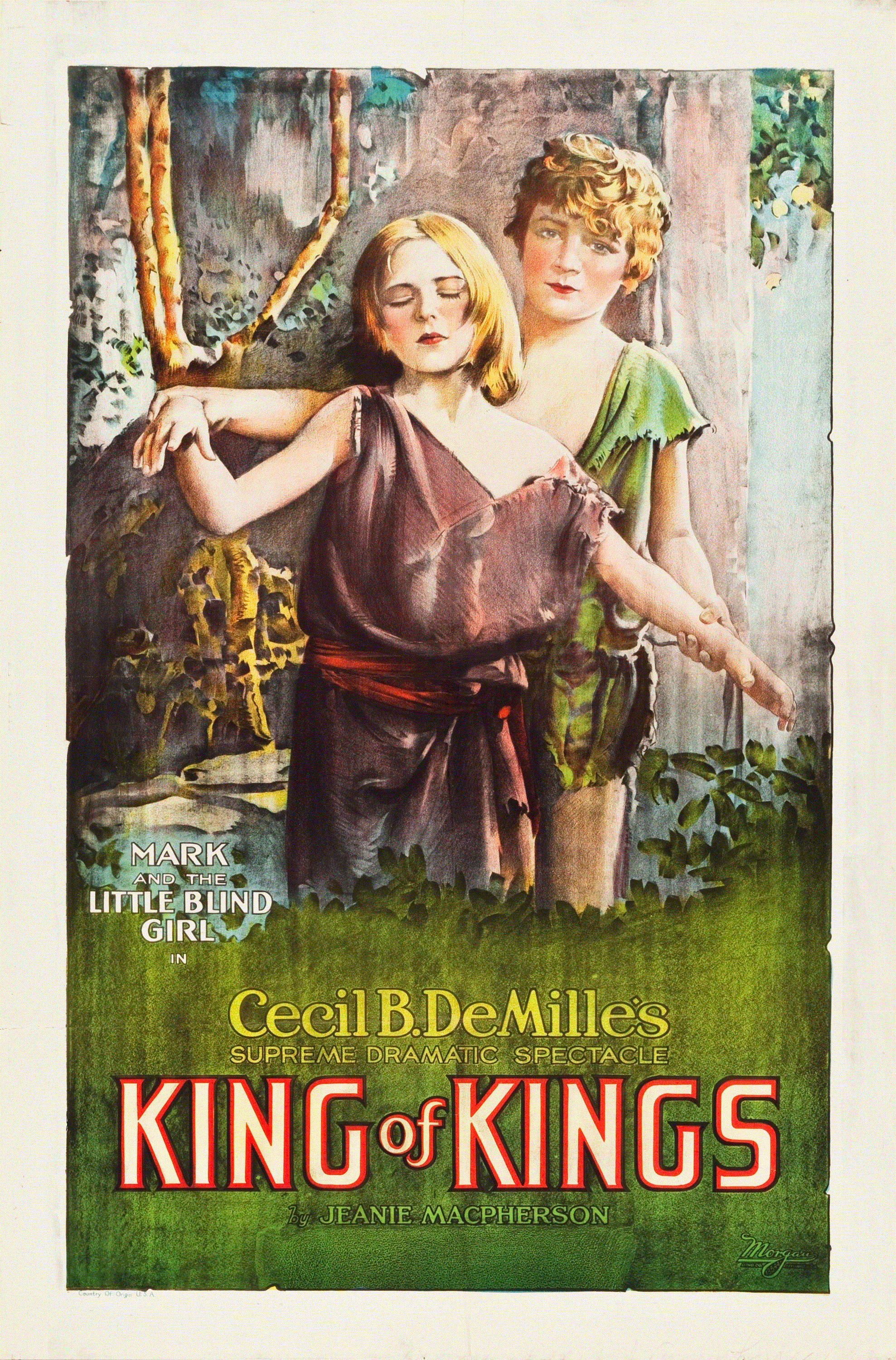 Poster for the 1927 film King of Kings. The item has no copyright markings on it as can be seen in the links above. At bottom left is Country of origin USA. At bottom right is a logo for Morgan Litho Corp, Cleveland, O.-they printed the poster.